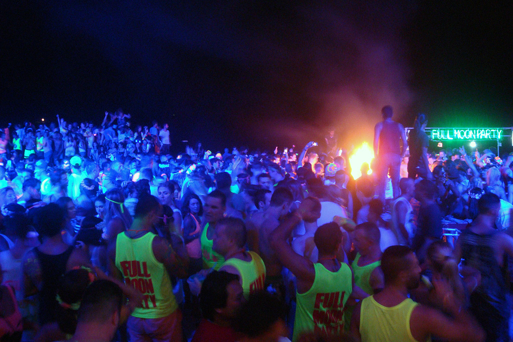 Full Moon Party in March 2015 at Haad Rin Sunrise Beach, Koh Phanang, Thailand. View at the "fire skipping rope" play-section next to Paradise Bungalow.